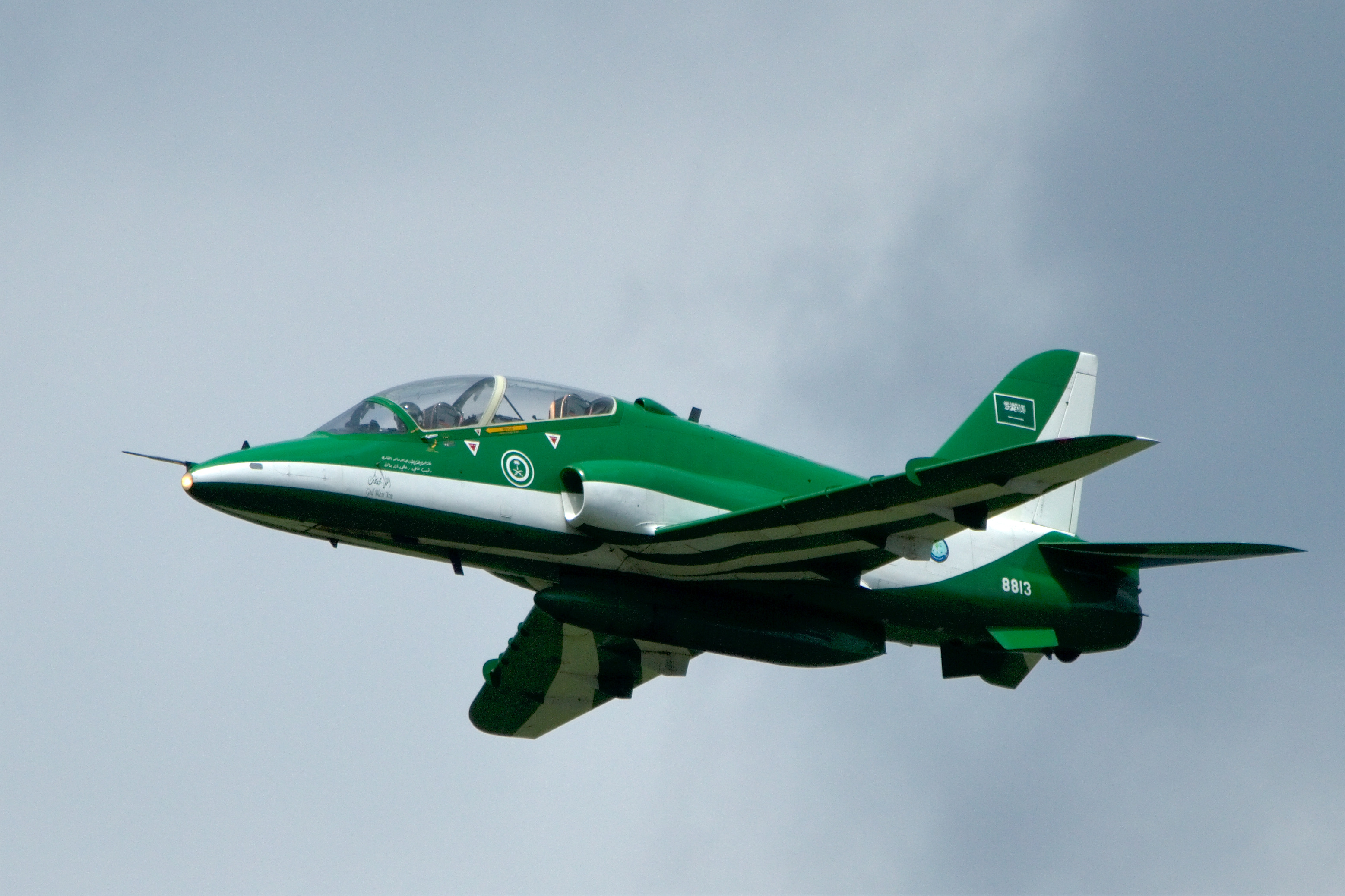 Saudi Hawks at Airpower11